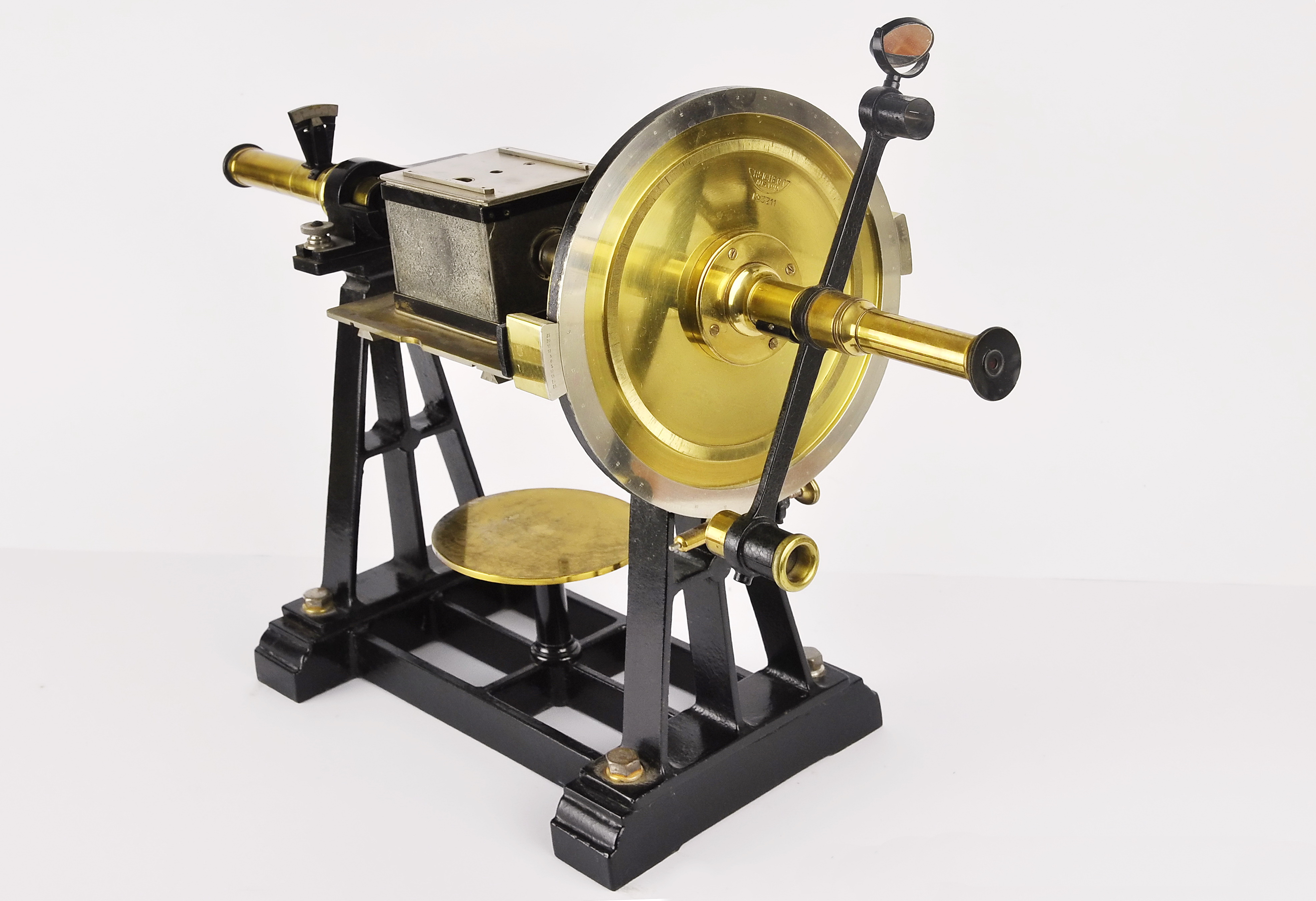 Polarimeter. It is located in Museum of Science and Technology Belgrade.